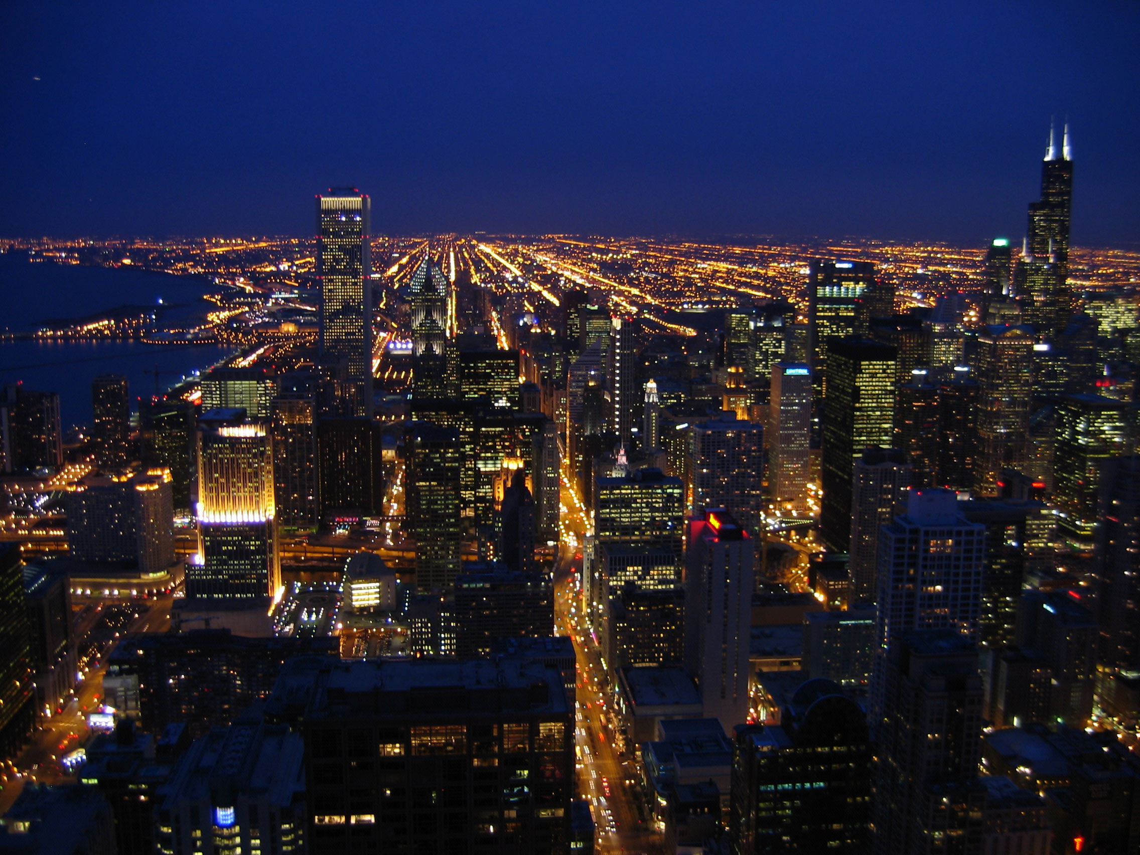 Downtown Chicago skyline (Aon Center - left; Sears Tower - right), viewed from the John Hancock Center observatory.